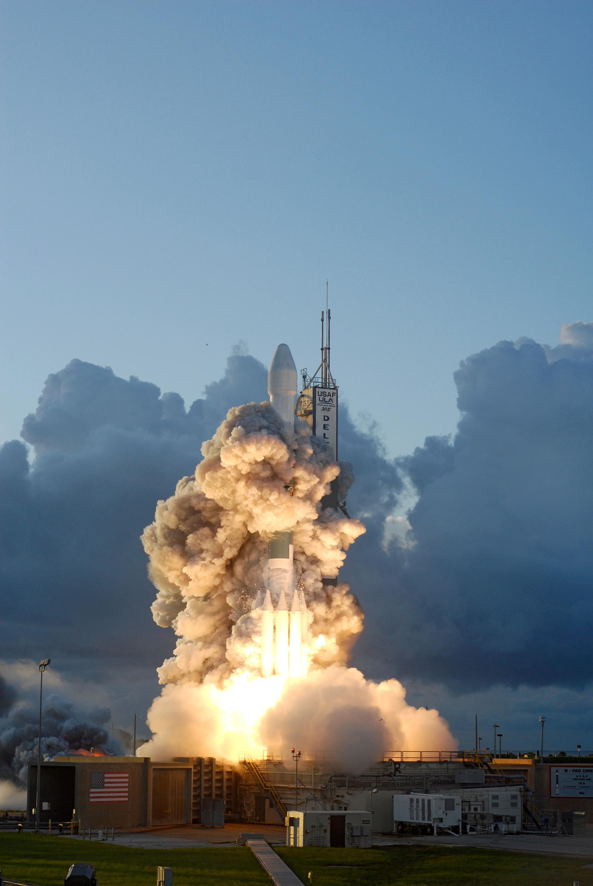 A Delta II rocket lights its main engine and nine solid-fueled boosters to begin the Dawn mission to the asteroid belt. The launch took place Sept. 27, 2007, at Cape Canaveral Air Force Station in Florida.